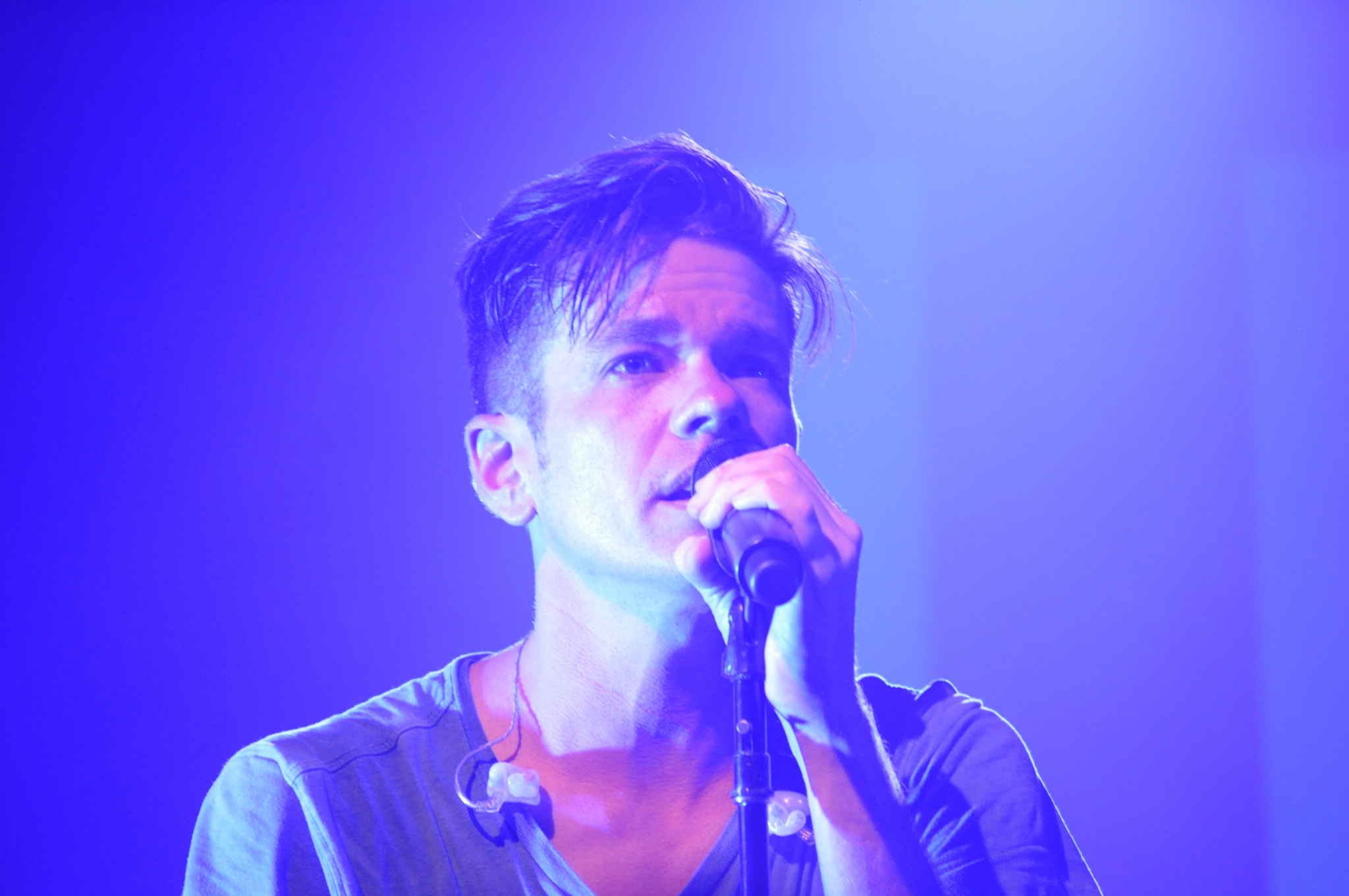 Nate Ruess in Tucson